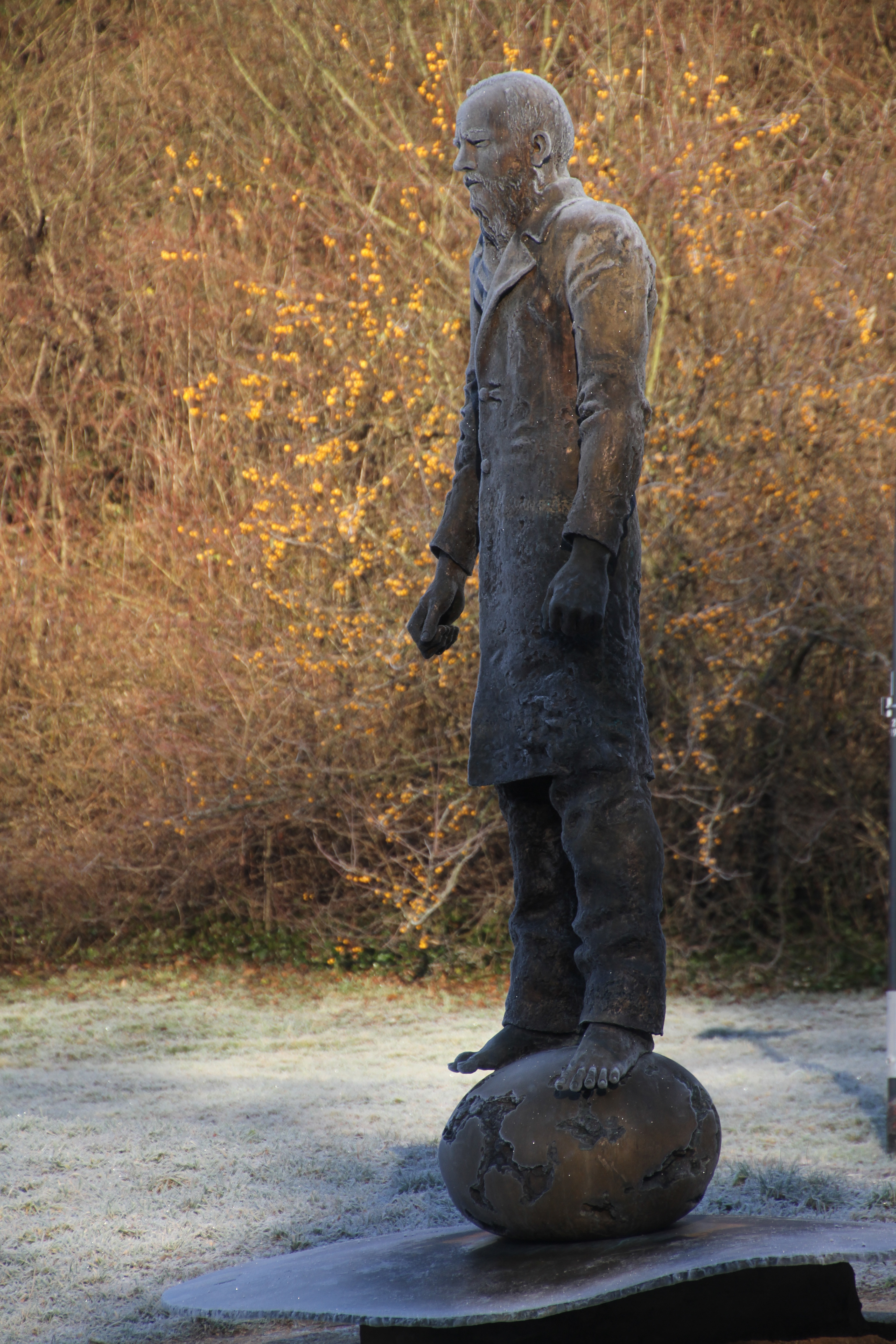 Statue of the Russian poet Fyodor Michailovich Dostoyevsky by Leonid Baranov, 2004. Situated in Baden-Baden in the Rotenbachtal at the upper end of the Seufzerallee.